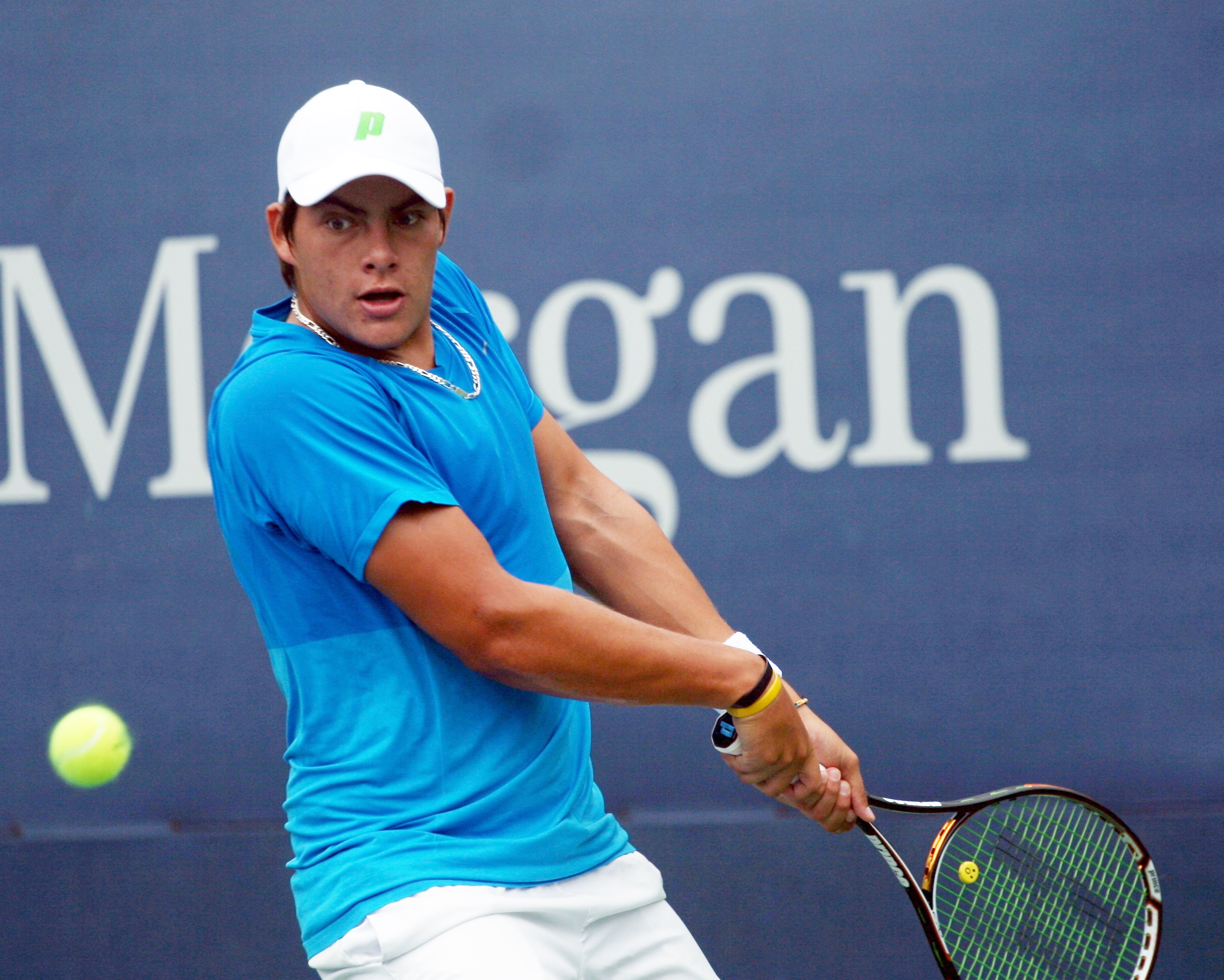 U.S. Open Juniors Monday, Sept. 2, 2013